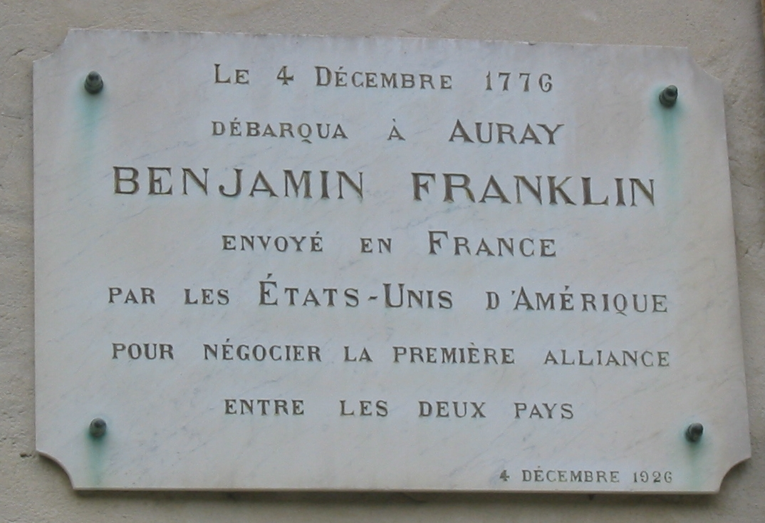 Plaque about the arrival of Benjamin Franklin in France in 1776. Auray (Morbihan) France